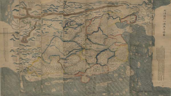 The map of "Da Qing wan nian yi tong tian xia quan tu" (also named "The great Qing Dynasty's complete map of all under heaven")